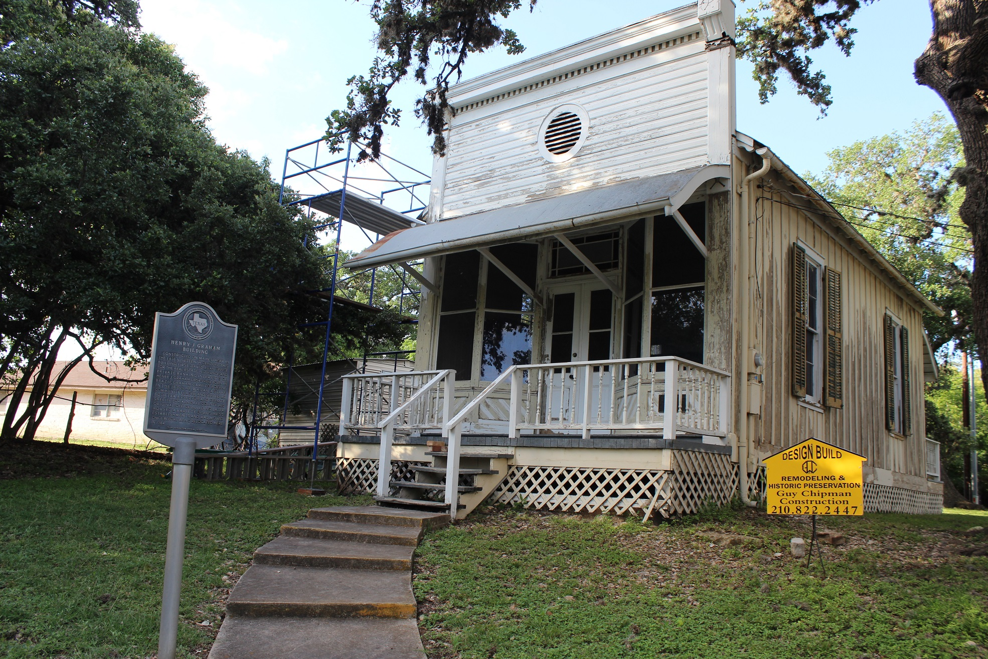 Henry J. Graham Building. Constructed on Main Street in the late nineteenth century, this building first served as an office for the real estate, insurance, and private banking interests of Henry J. Graham (1854-1936). Born in Brazil, Graham came to Boerne in the 1870s. He was an active community leader and served as both tax assessor and deputy sheriff for Kendall County. His original office building later housed a variety of business establishments and was moved once before being relocated here in 1984. Texas Sesquicentennial 1836-1986 Recorded Texas Historic Landmark - 1986 #2449